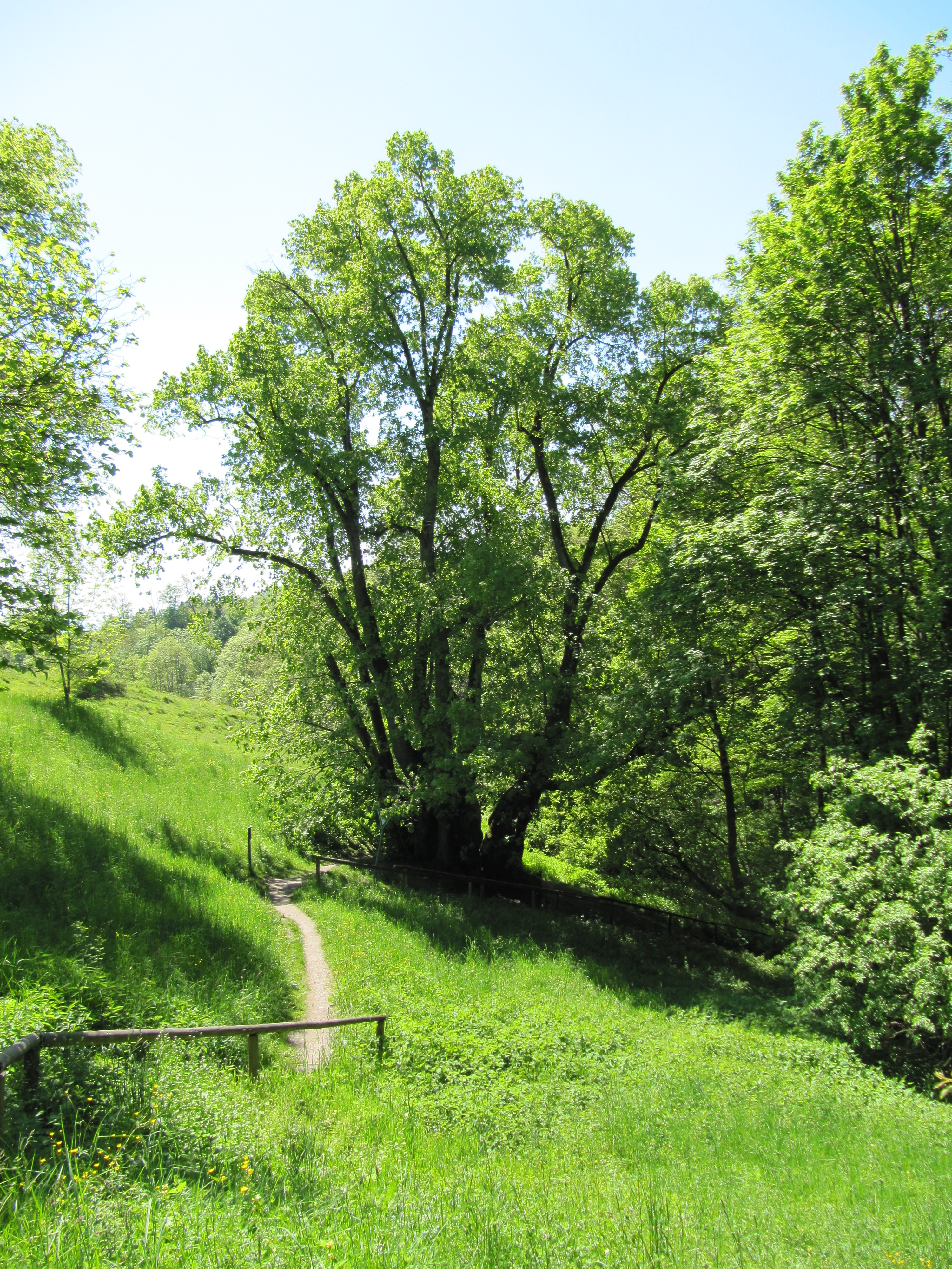 Tassilo lime tree in Wessobrunn